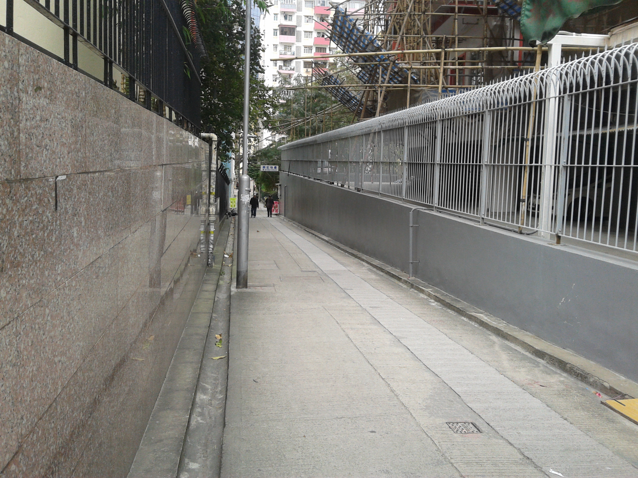 Yuet Wah Street alley